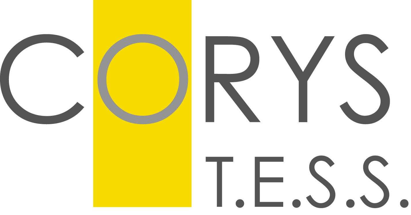 Logo from 1997 to 2013